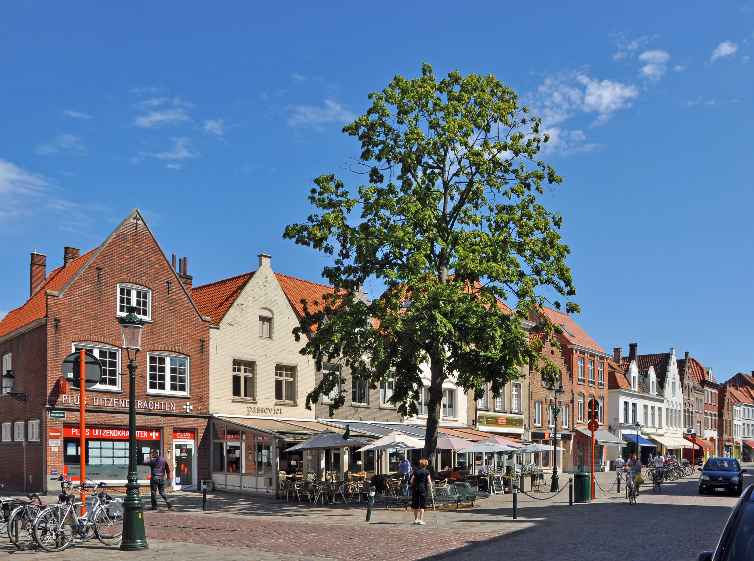 Bruges (Belgium): Smedenstraat